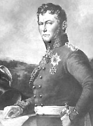 Portrait of Karl Friedrich von dem Knesebeck